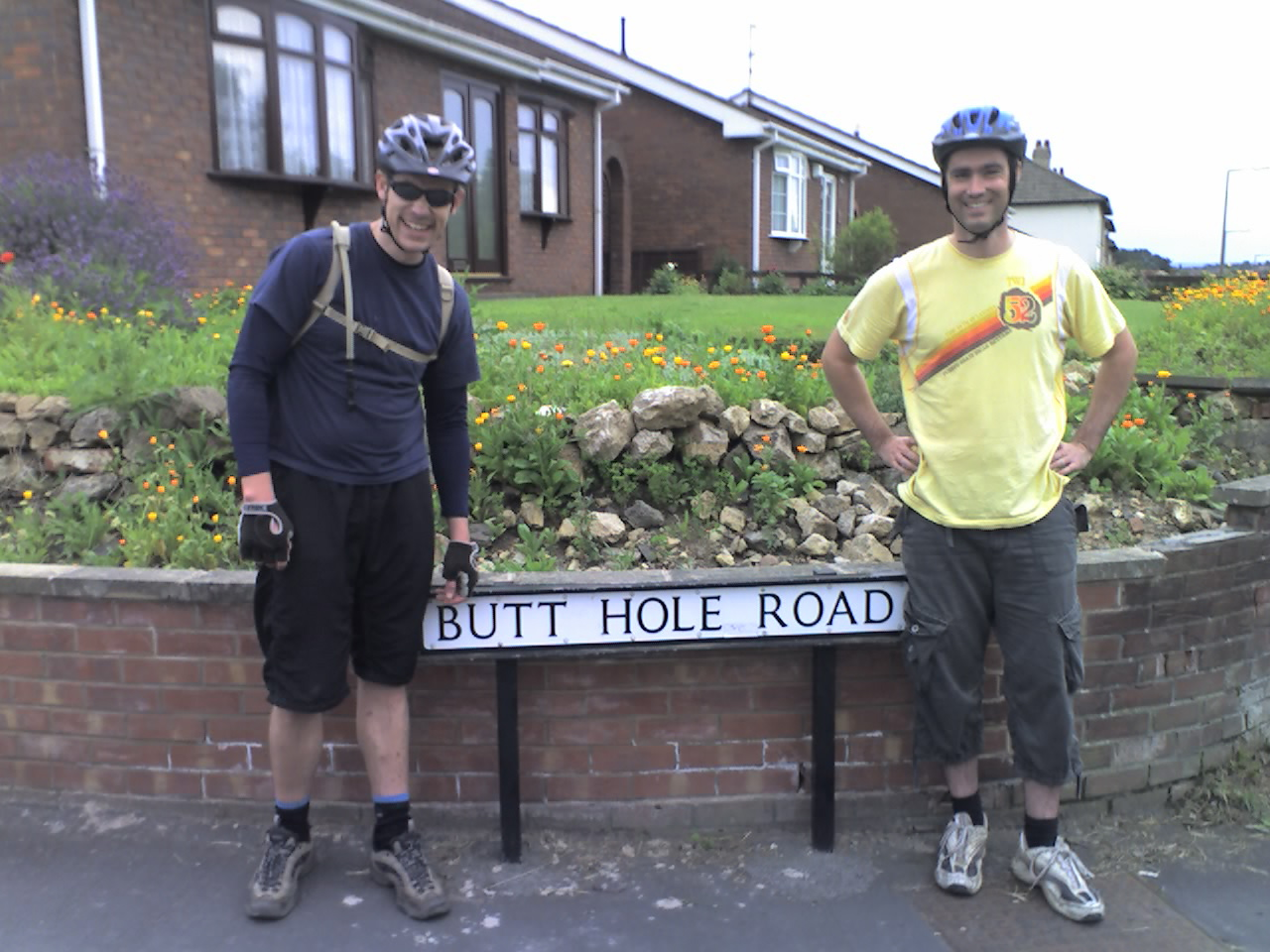 Tourists at Butt Hole Road in Conisborough, Doncaster, South Yorkshire.